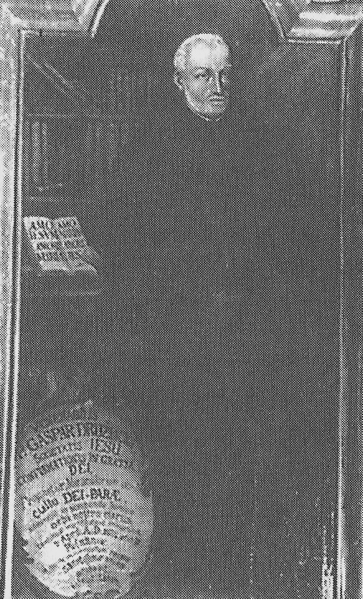 Portrait of Jesuit mystic and writer Kasper Druźbicki in Poznań old parish (fara) church, with the Latin motto: I love Jesus with the love of Mary – I love Mary with the love of Jesus